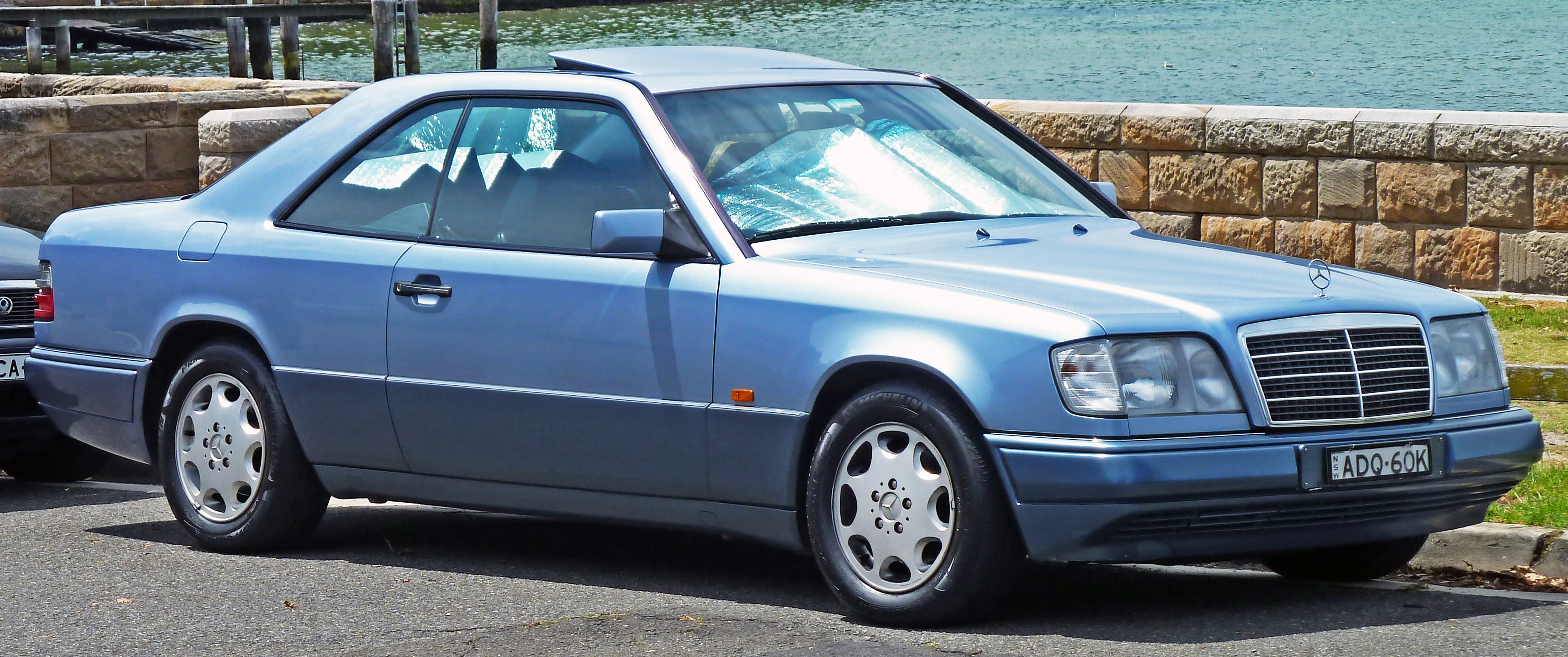 1993 Mercedes-Benz E 320 (C 124) coupe. Photographed in Double Bay, New South Wales, Australia.